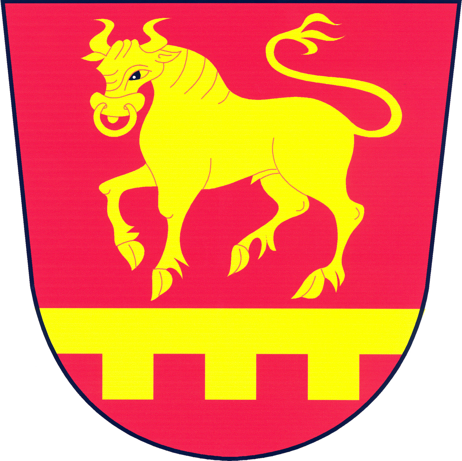 Municipal coat of arms of Býkovice village, Blansko District, Czech Republic.